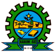 Coat of arms of the municipality of Xaxim, Santa Catarina - Brazil